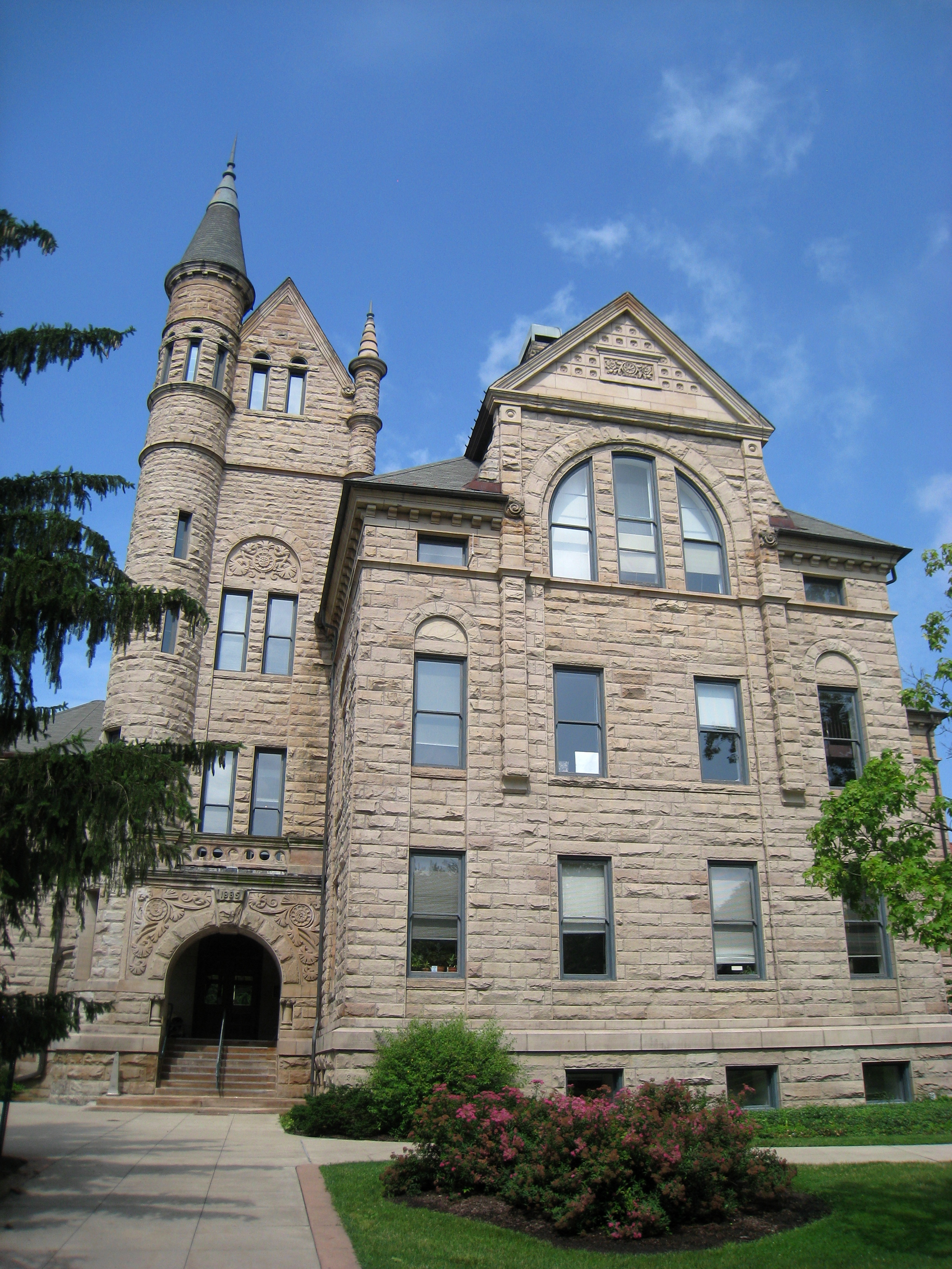 Peters Hall, Oberlin College, Oberlin, Ohio, USA. Architects Messers, Weary and Kramer, of Akron, dedicated January 26, 1887. I took this photograph.